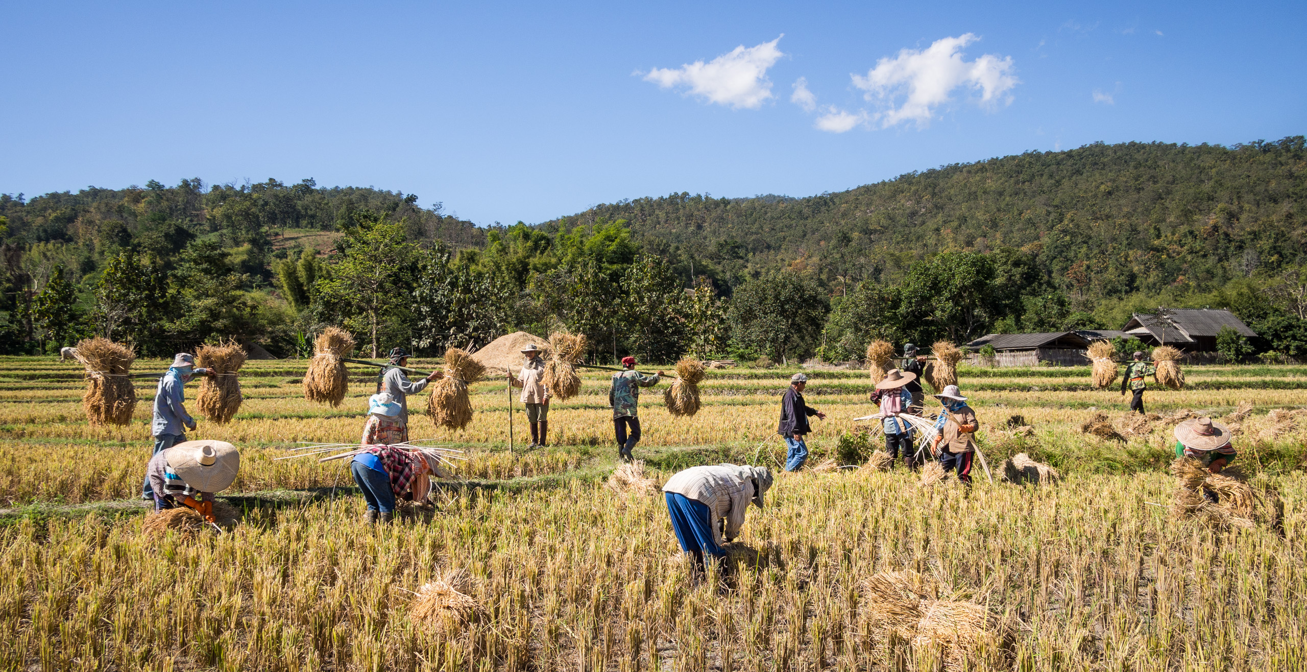 Rice straw is gathered, bound and carried from the rice paddies to a central place after the harvest.